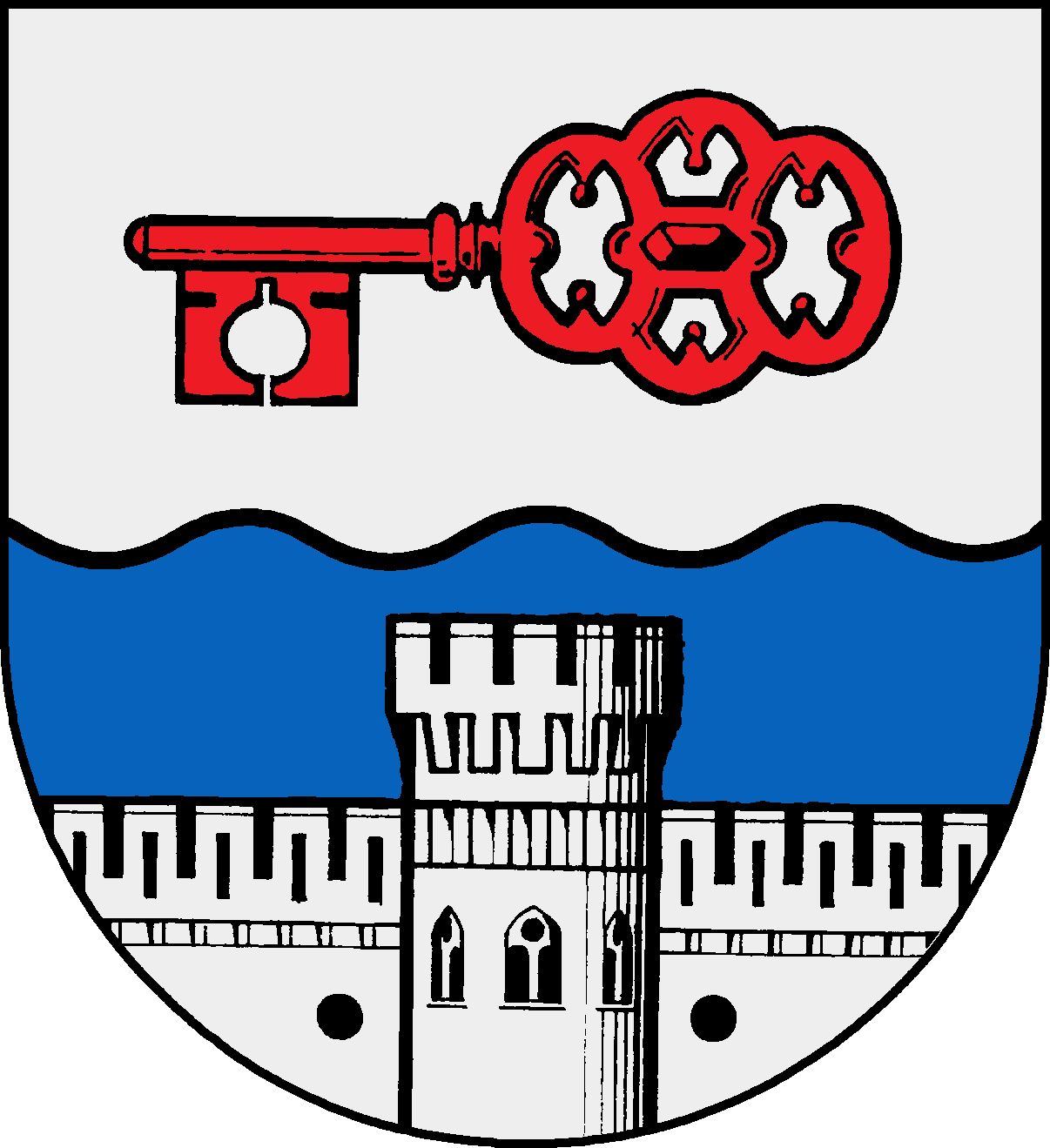 Coat of arms of the municipality Selent in Schleswig-Holstein, Germany.